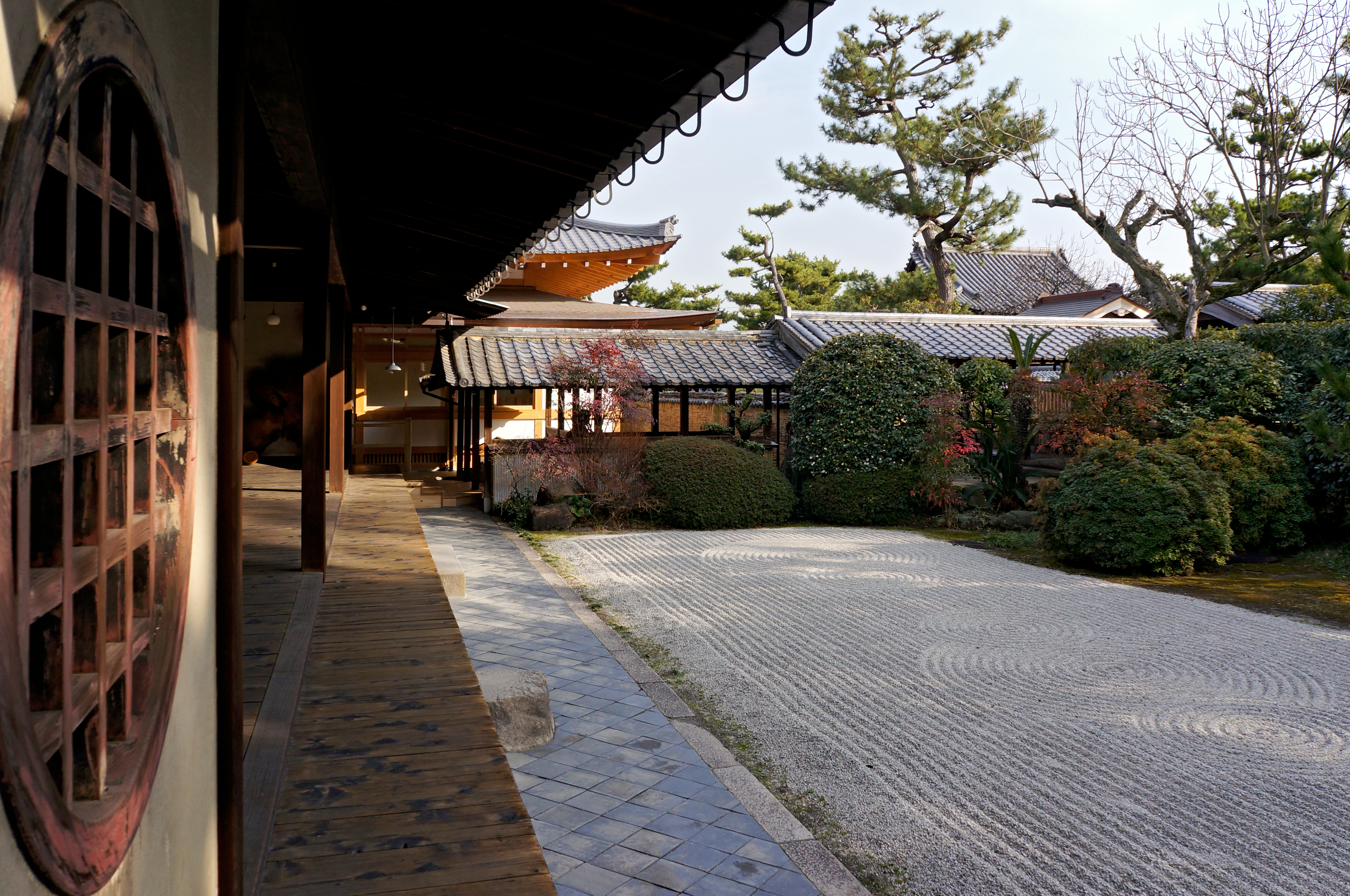 Nanshu-ji in Sakai, Osaka prefecture, Japan.